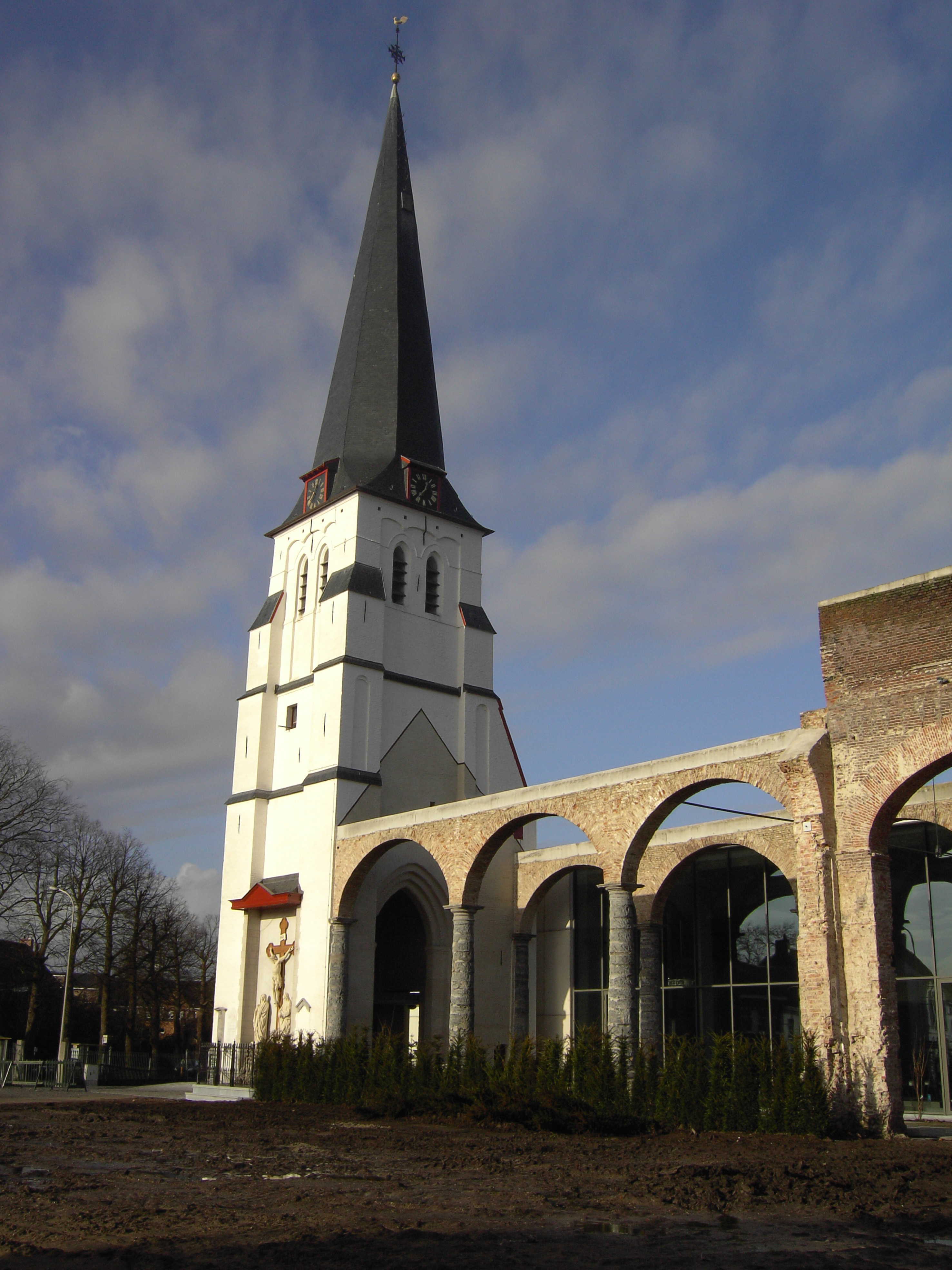 Church of Saint Ghislenus in Waarschot. Tower and the ruins of the old church. A new church is built next to the remains of the old one. Waarschoot, East Flanders, Belgium